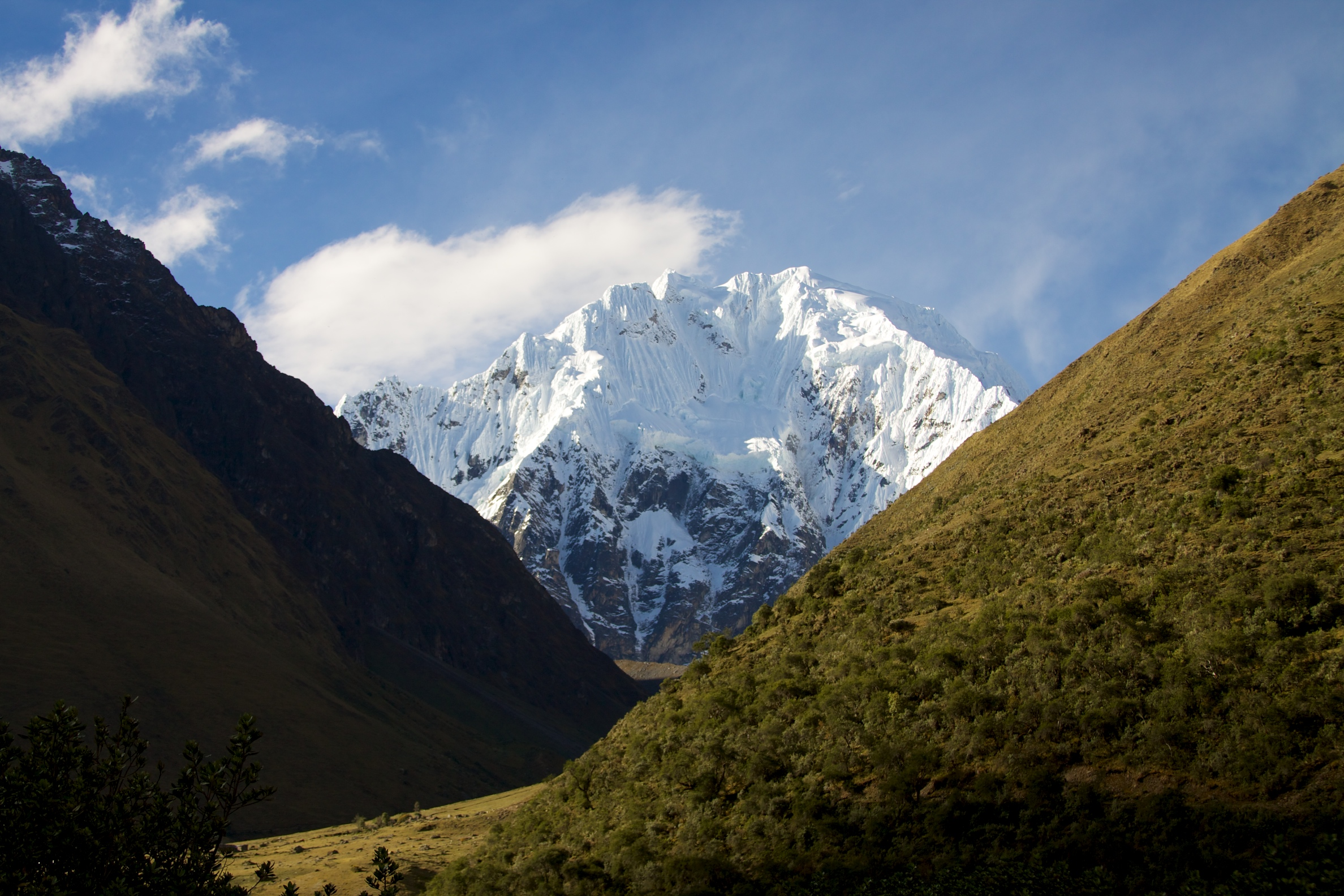 As we near our campsite at Soraypampa, 6264m Nevado Salkantay is finally visible up the valley, dramatic in its steep blanket of ice. Our route tomorrow goes up this valley and swings left between Salkantay and Tucarhuay.